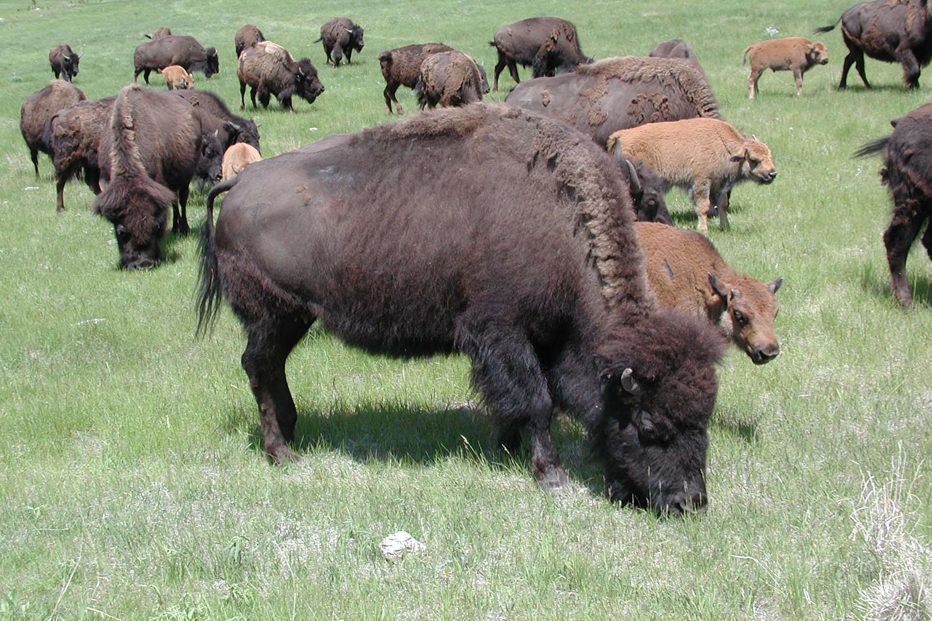 Tatanka (Bison bison - the American bison or more commonly buffalo) grazing in Custer State Park in South Dakota, USA